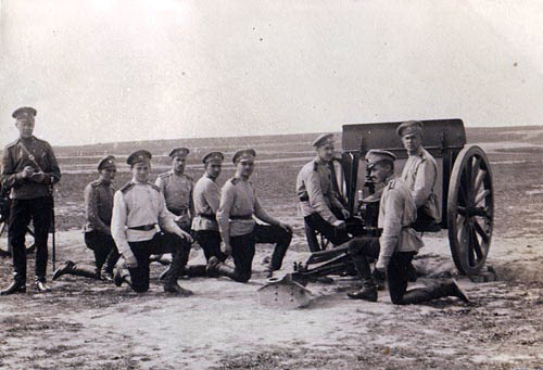 The Mikhailovskoye artillery school (Saint-Petersburg, Russia)